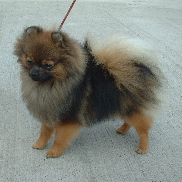 Veltuds Red Chimes. An orange-sable Pomeranian owned by Miss A Samuels. Photo by sannse at the City of Birmingham Championship Dog Show, 29th August 2003